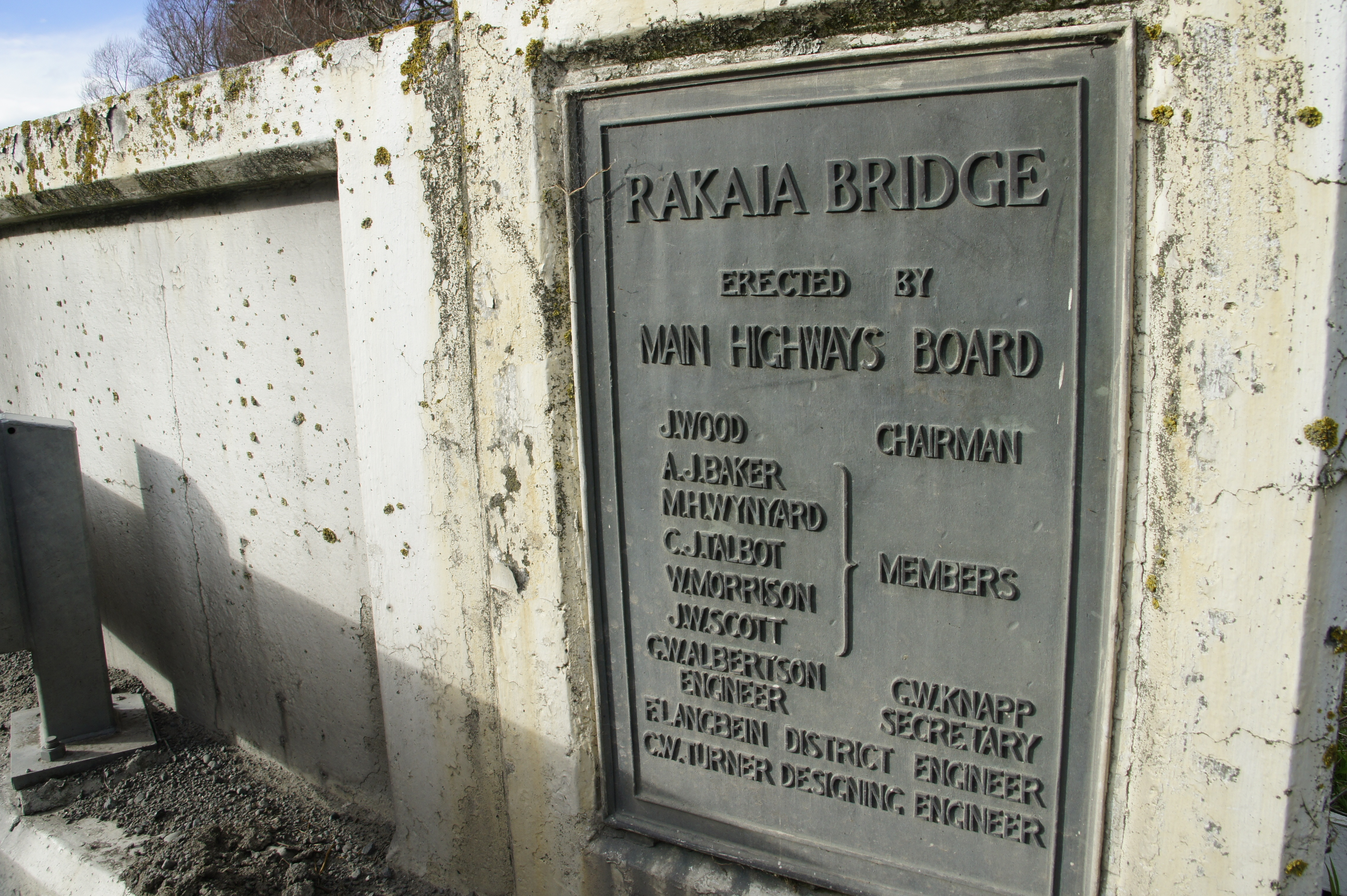 When opened on 25 March 1939, the Rakaia River Bridge was New Zealand’s longest bridge, and it has retained that title. The bridge is 1.8 kilometres in length, comprising of 12.2 metre spans.